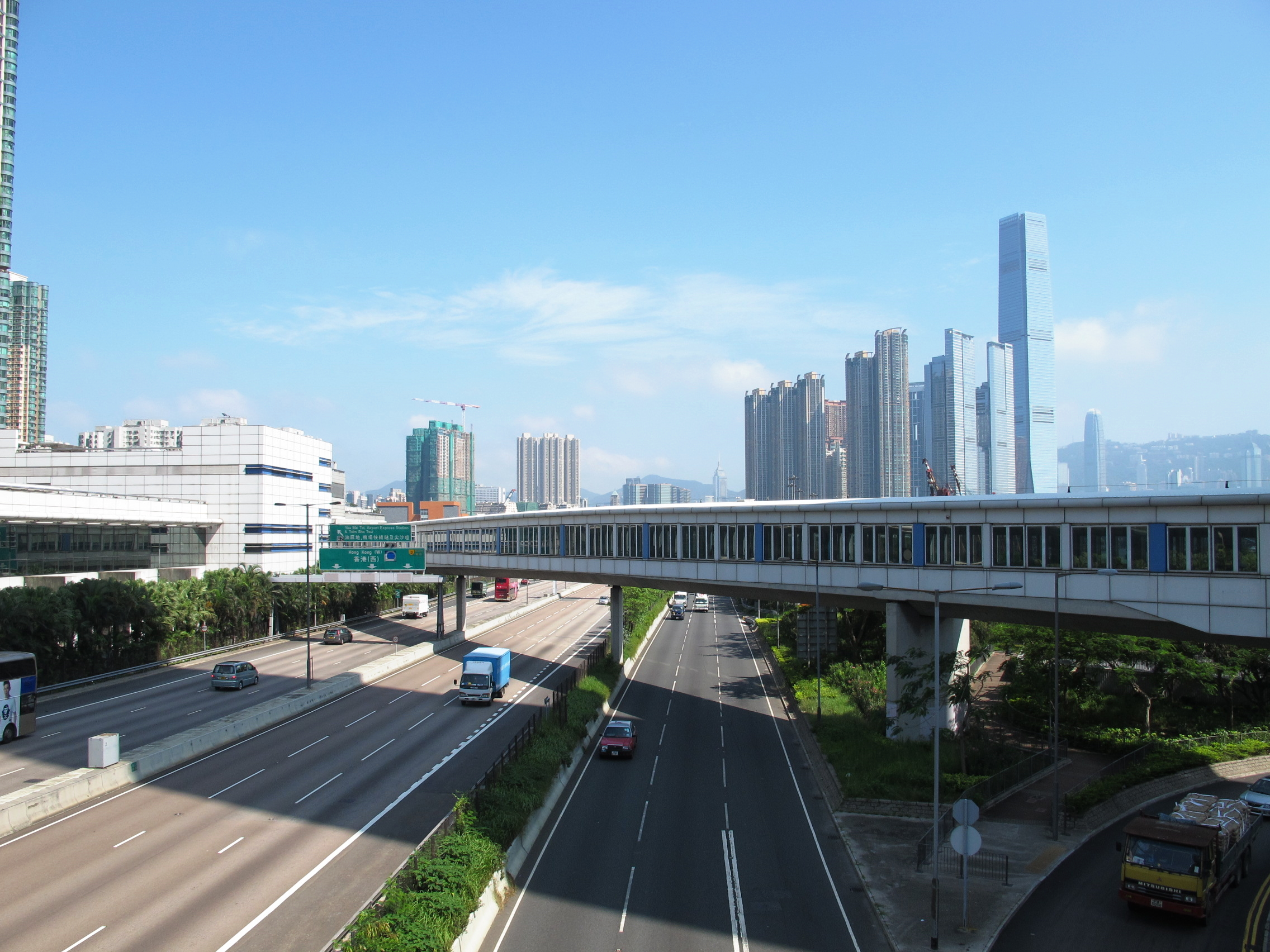 West Kowloon Highway 西九龍公路